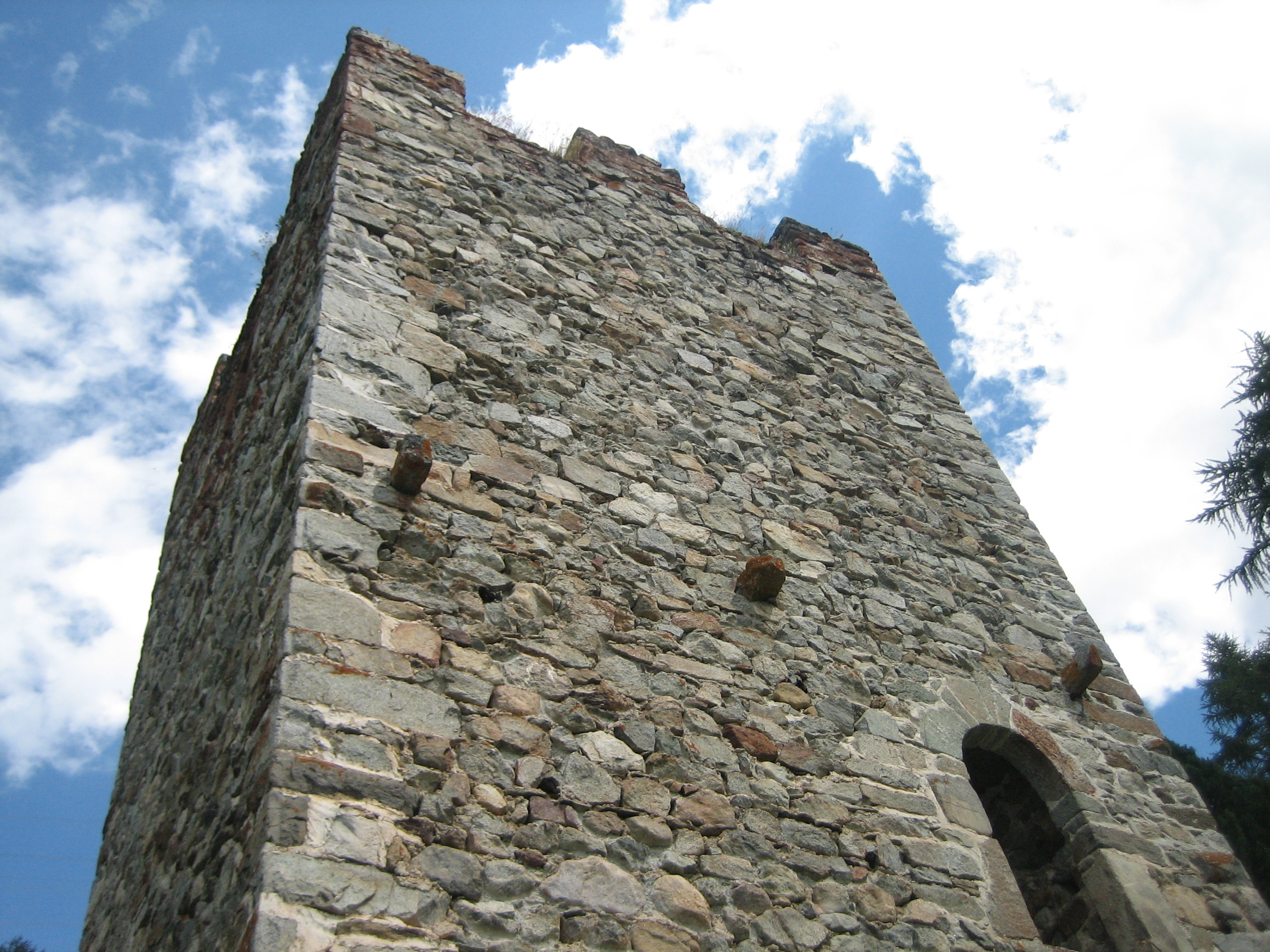 Turm Spaniola, Nordwestecke